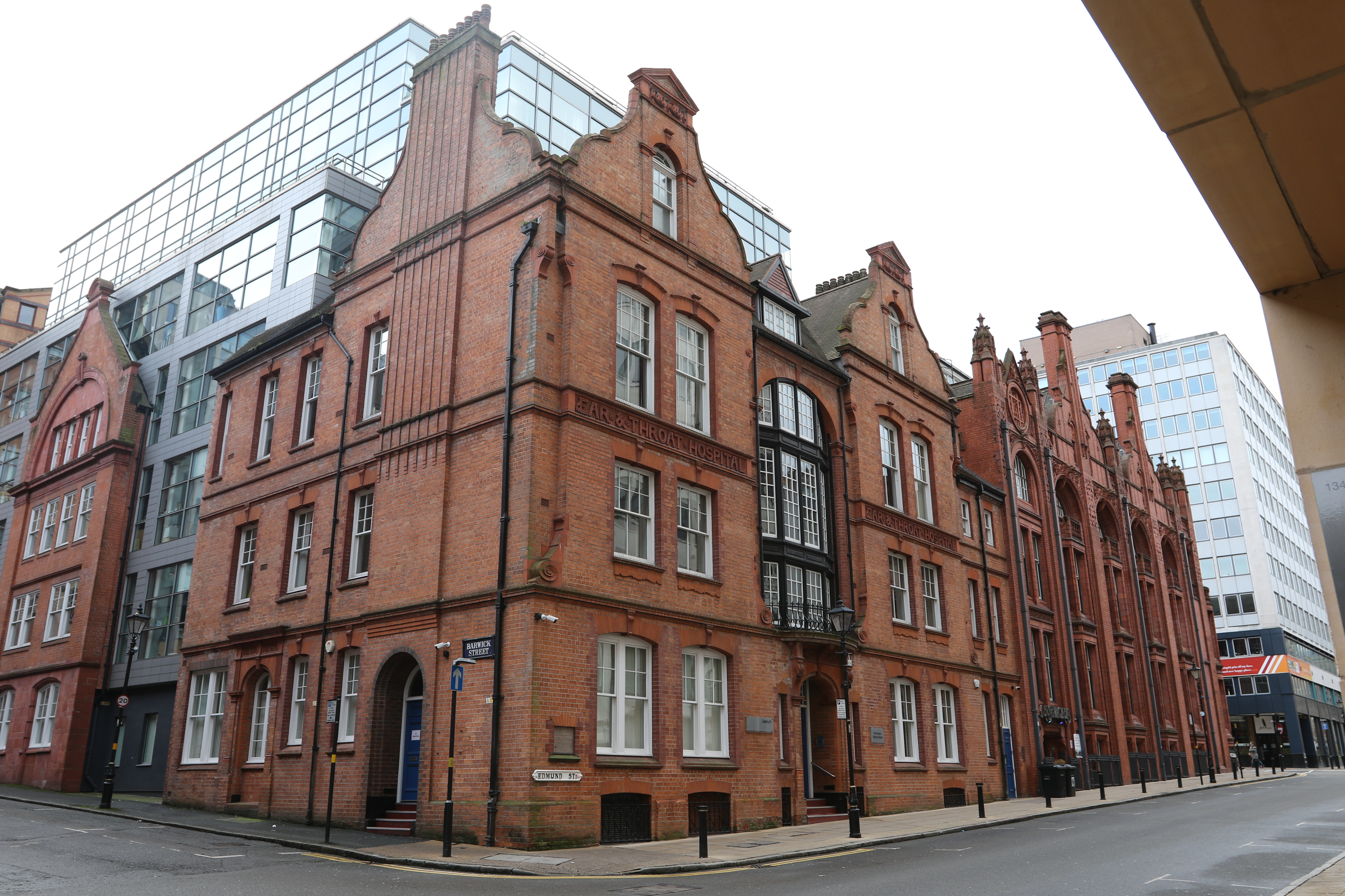 At the junction of Edmund Street and Barwick Street. Built 1890-91 by Jethro A. Cossions & Peacock.